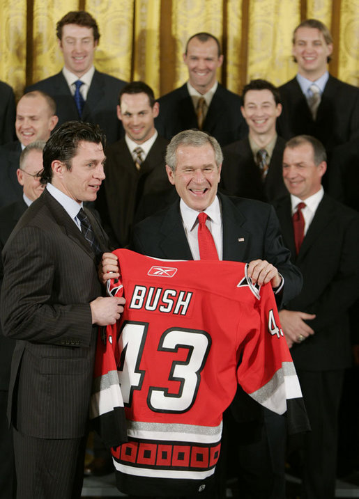 2006 Stanley Cup winner Carolina Hurricanes is visiting the White House. Team's captain Rod Brind'Amour is giving a Carolina jersey to US President George W. Bush.